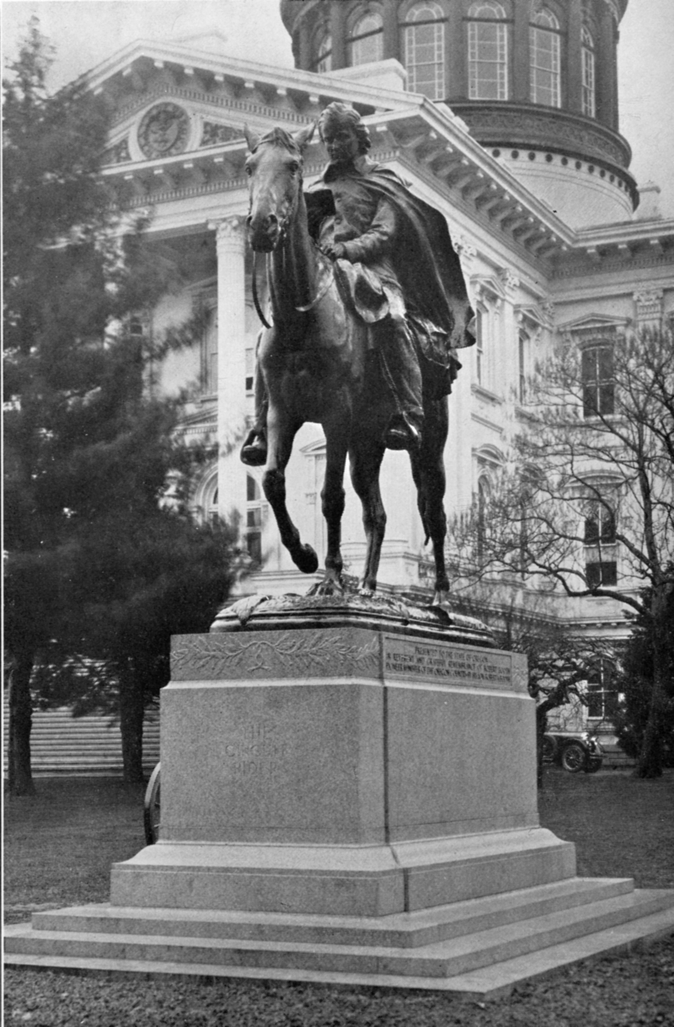 Image from the Oregon Historical Quarterly Vol. 25